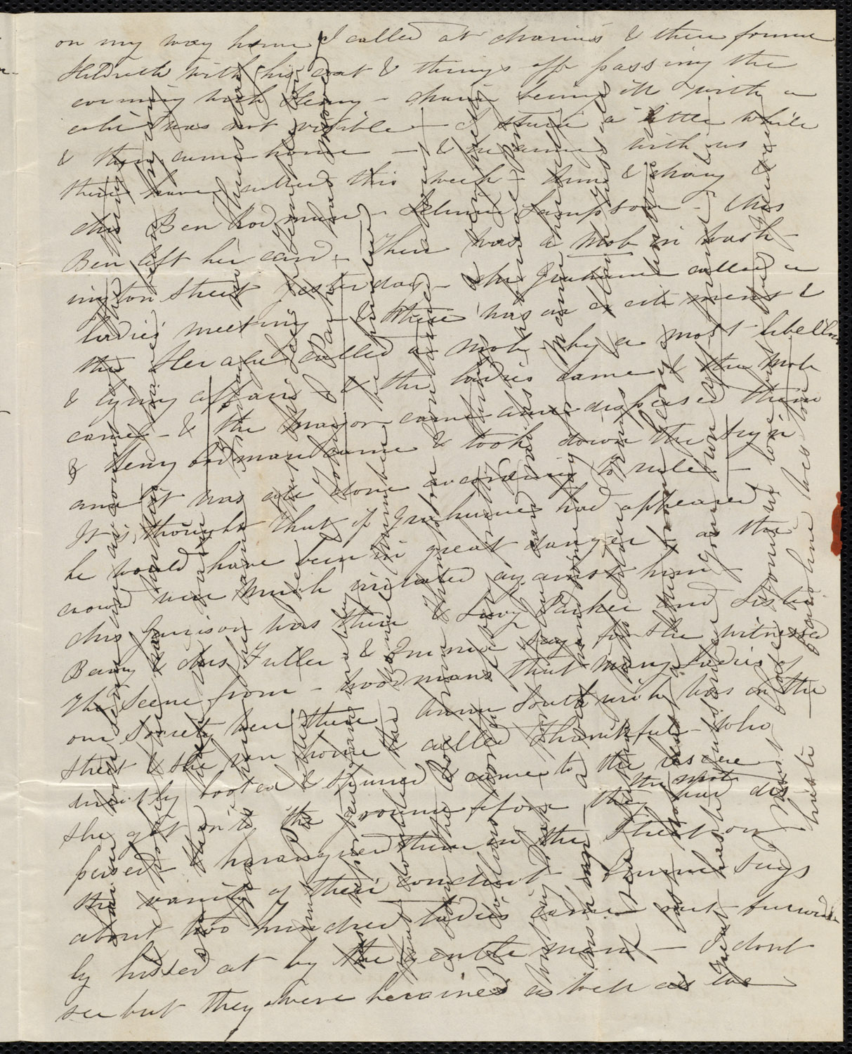 Page: p. 3 Call Number: Ms.A.9.2 v.9 n.15 (1) Format: Autograph Letter Signed Extent: 4 p., 9 7/8 x 7 7/8 in. Creator: Weston, Caroline, 1808-1882 Date of creation: 1837-03-03 Place of creation: Boston, MA Recipient: Weston, Deborah, 1814-1889 Place of receipt: New Bedford, MA BPL department: Rare Books Flickr data on 2011-08-03: Camera: Sinar AG Sinarback 54 FW, Sinar m Tags: dc:identifier=08_07_000037 License: CC BY 2.0 User: Boston Public Library BPL